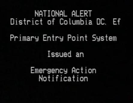 Screenshot of the Emergency Alert System during the November 9th, 2011 Nationwide Test. Noticed it shows up as an EAN but there was no actual emergency.